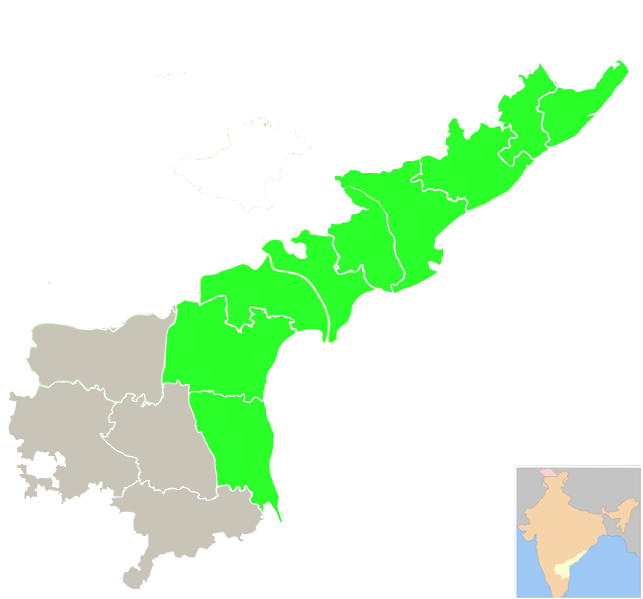 Coastal Andhra in Andhra Pradesh (from June 2nd 2014)